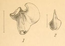 Psiloteredo megotara (Hanley in Forbes & Hanley, 1848), Teredinidae, Bivalvia, Mollusca